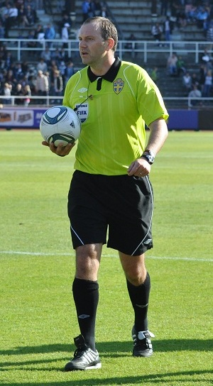 Jonas Eriksson